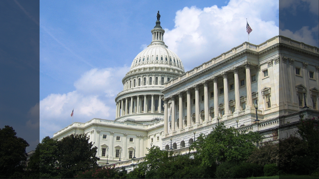 Aspect Ratios Comparison (16:9 and 4:3)